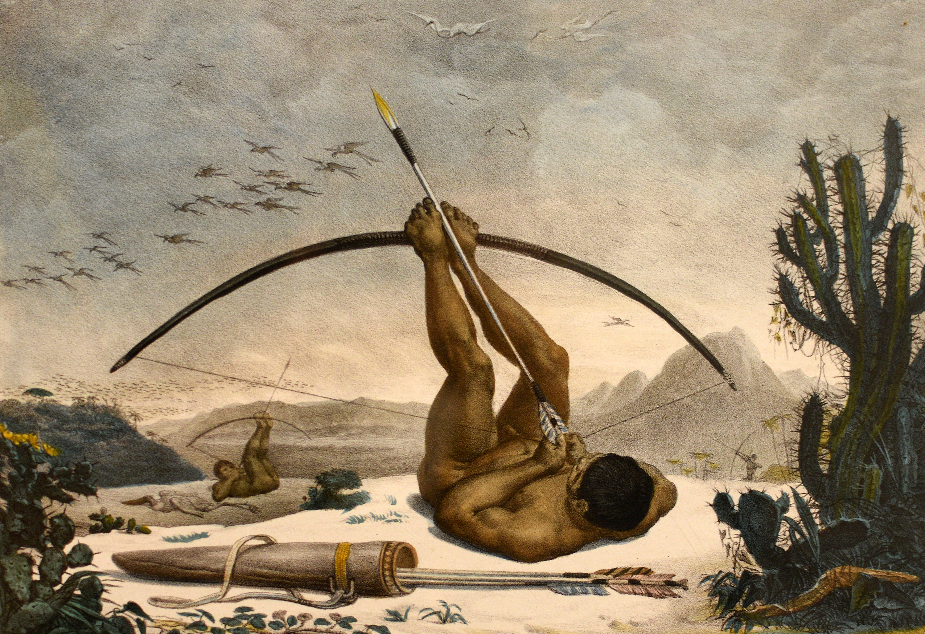 An Indian lying down displaying his extreme skill in handling the bow and arrow. It occupies the center of the image, however, a little distant, stands another Indian in the same position and, farther back, a third archer, standing, also shoots his arrow in the wild and natural landscape, in which no sign of colonizers can be identified. If the image (nudity, use of indigenous weapons, wild landscape) could suggest that we are in front of a "wild Indian", the title of the painting of Caboclos or civilized Indians and the text to which it corresponds, Village of São Lourenço, leave no doubt about the classification given by Debret to the characters: these are caboclos - "civilized Indians", generic name that, in the province of Rio de Janeiro, was given to "every civilized and baptized Indian." The archer was the object of Debret's gaze, a caboclo of São Lourenço, who lived in intense contact with colonial society, yet maintained his skill with the bow and arrow and placed himself in that manner to attract the admiration of foreign travelers. According to the description, it was common to find them among the civilized of the villages, Indian archers, perhaps disdainful, interested in exhibiting their dexterity to the strangers who passed by. If that was the goal, it seems to have been achieved, at least with Debret. The cited text evinces the admiration of the artist for the Indian's ability, evidence reinforced by the option to portray him, associating it in the text about the village of São Lourenço